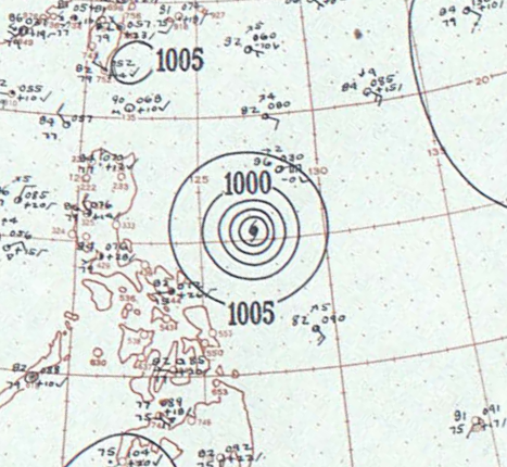 Surface weather analysis of Typhoon Virginia of the 1957 Pacific typhoon season on June 22, 1957.